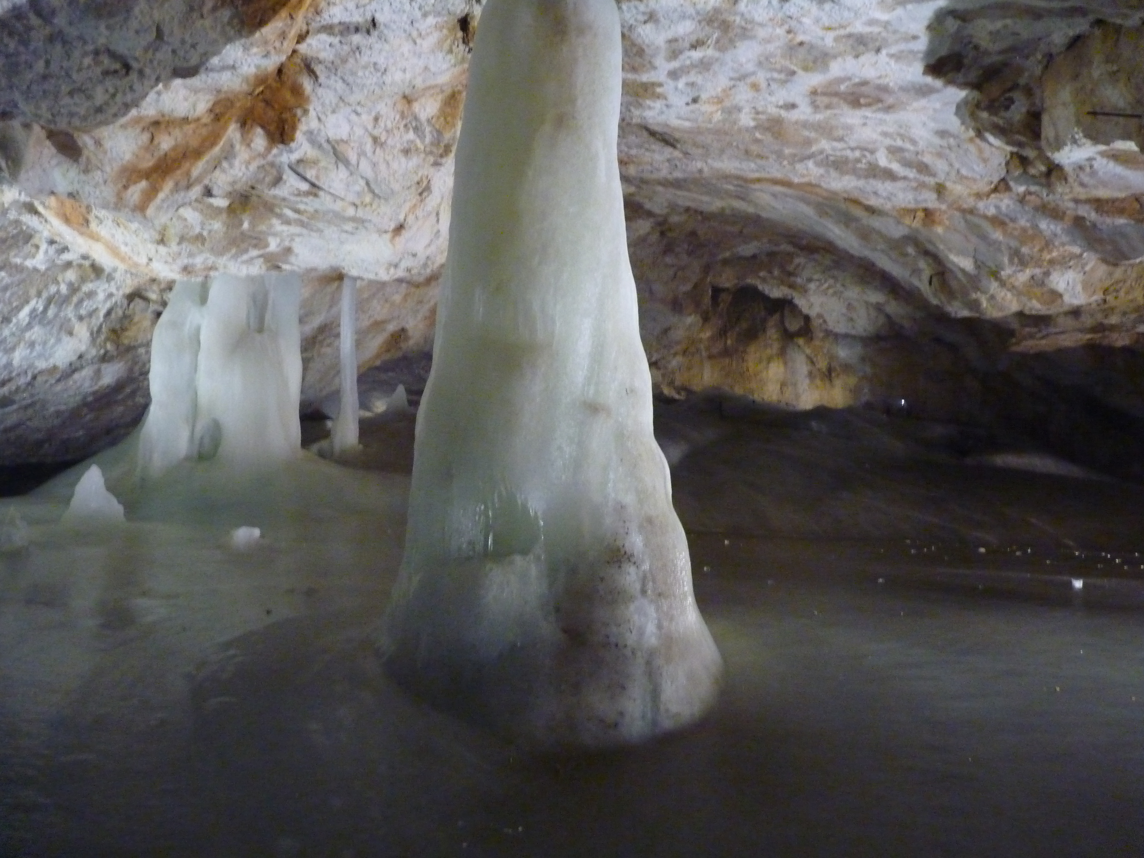 Dobšinská Ice Cave, Slovakia